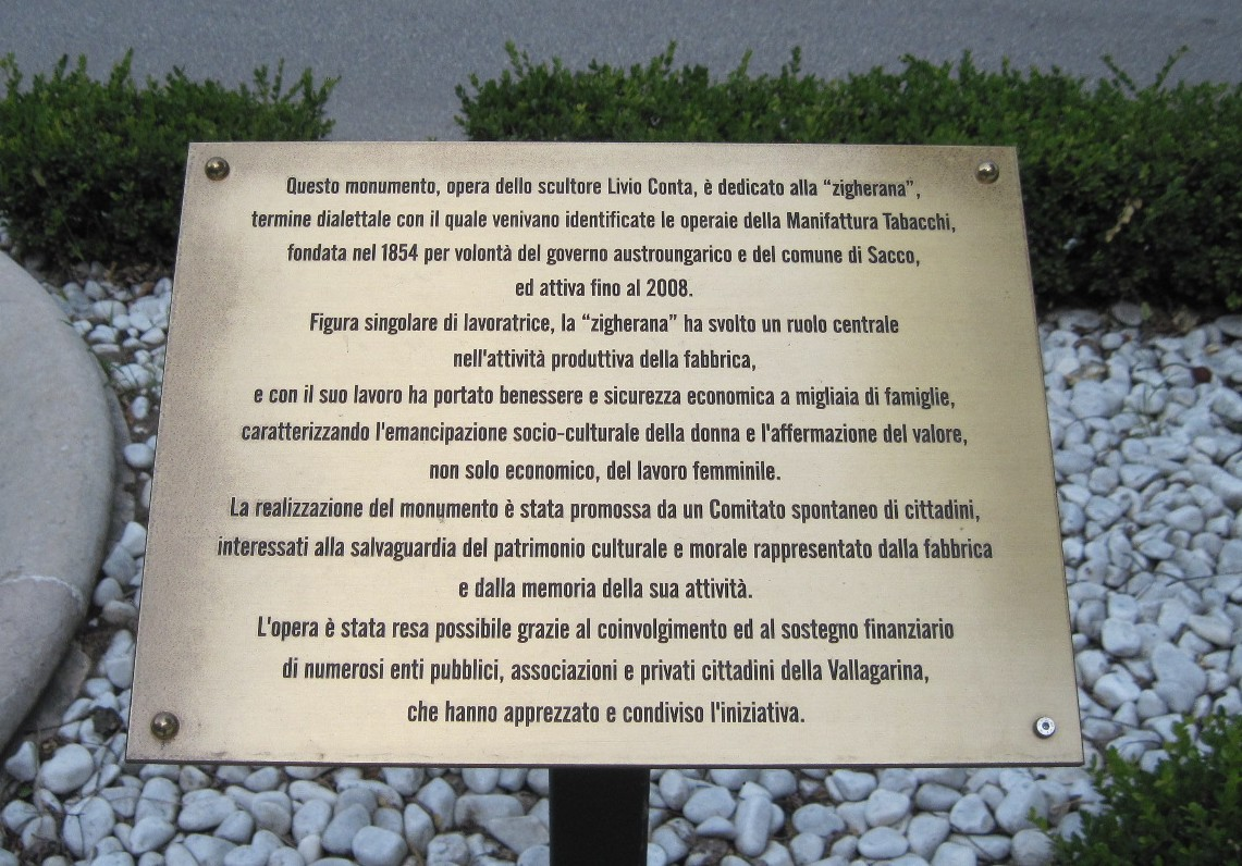 Zigherana monument, Rovereto